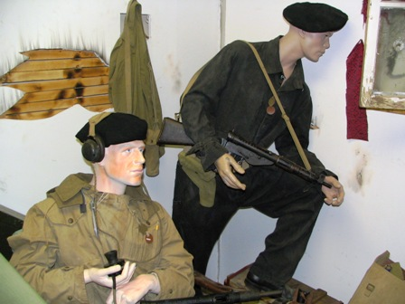 Static Display, Ontario Regiment Museum, Oshawa, 2006